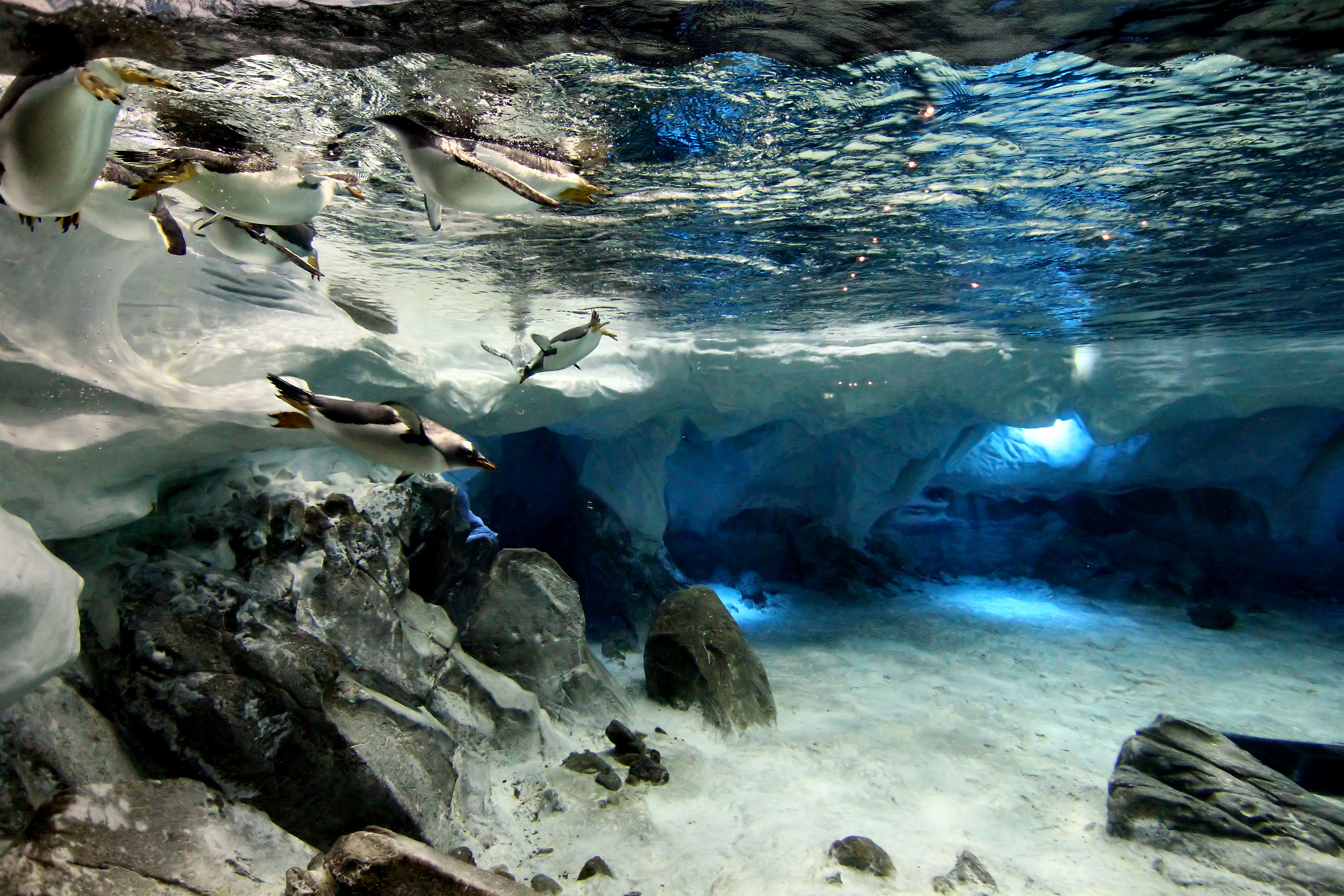 Honeymoon. Gold Coast Australia